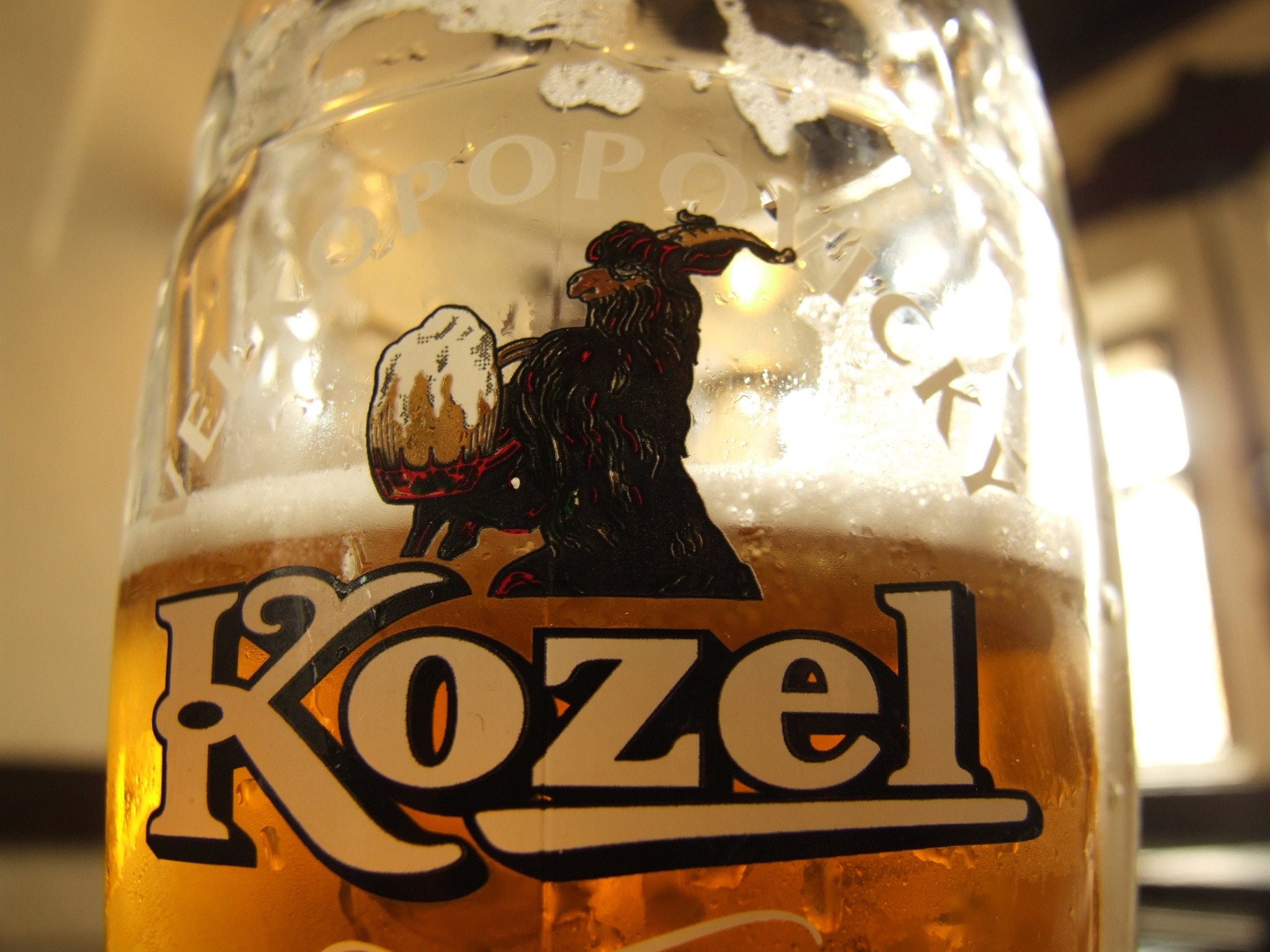 A glass of Velkopopovicky Kozel Author: Mohylek 16:01, 12 September 2006 (UTC)